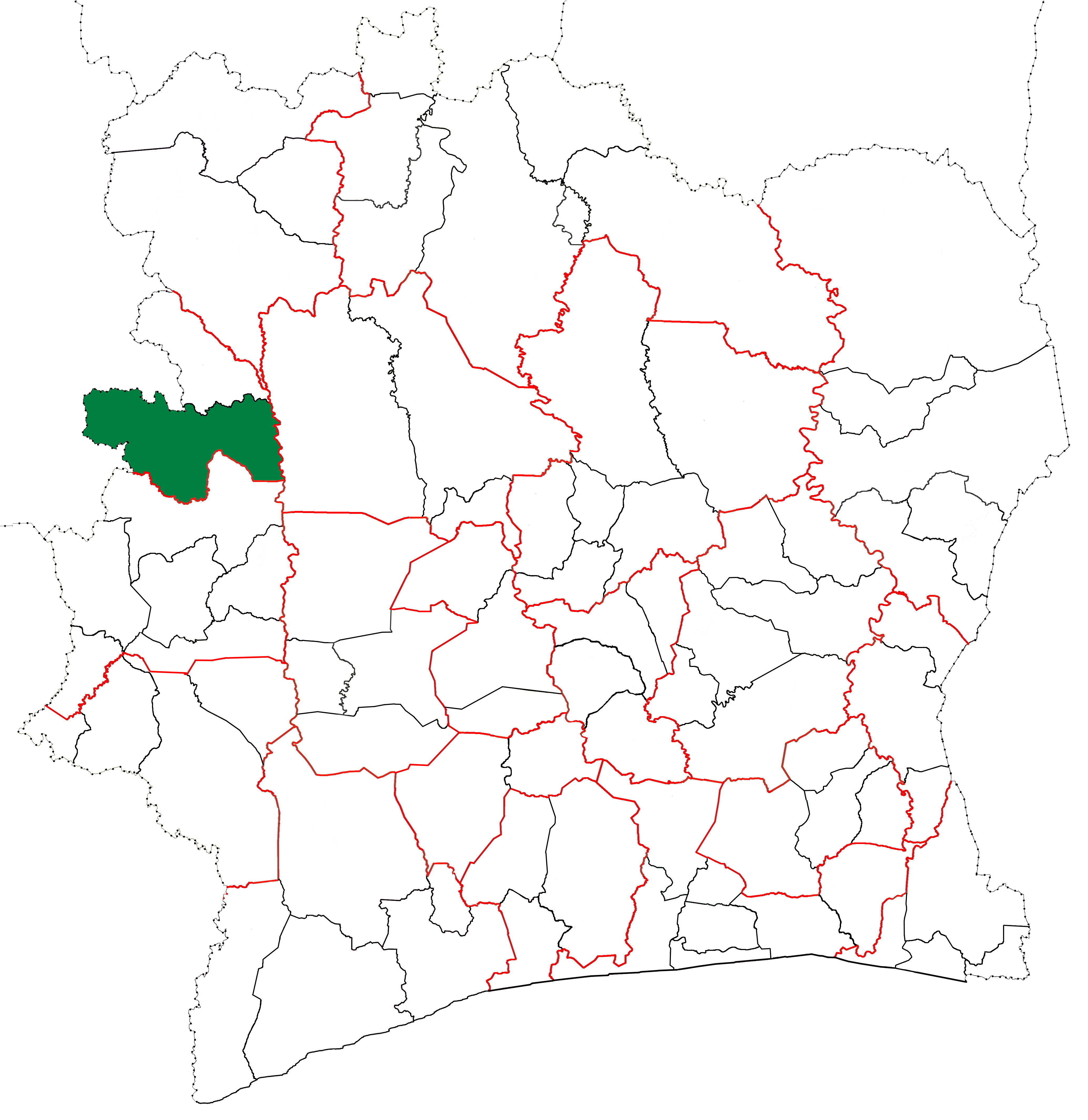 Locator map for Touba Department in Côte d'Ivoire in 2008. Touba Department kept these boundaries until 2011, but other subdivision boundaries began to be changed in 2009.